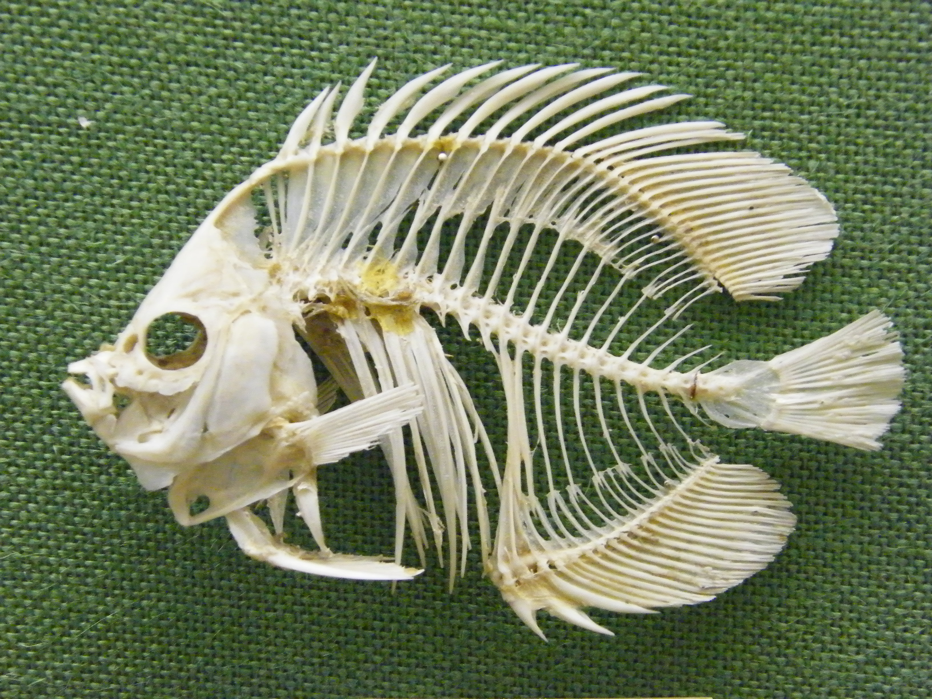 skeleton of butterfly fish This photo was taken as part of Britain Loves Wikipedia in February 2010 by Dave Russ.